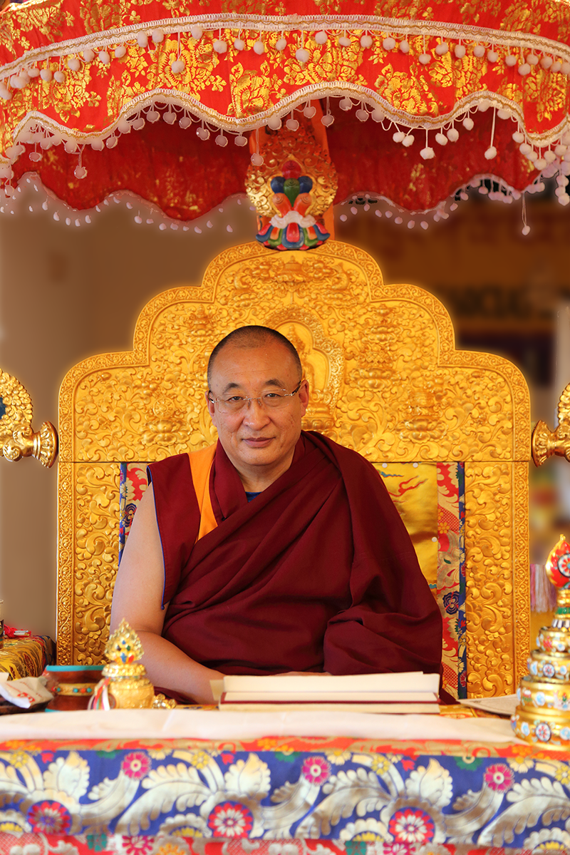 Shar Khentrul Jamphel Lodrö Rinpoché at Innate Kalachakra Empowerment in California 2018